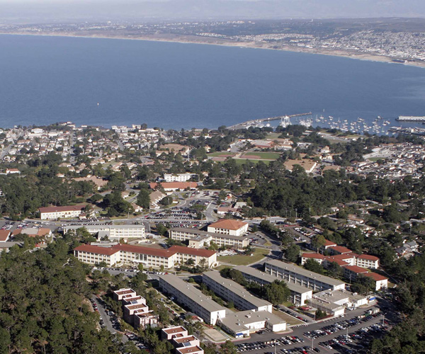 Aerial view of the Presidio of Monterey and the Monterey Bay.